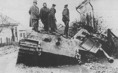 Tiger II was knocked out by two AP rounds hit on the glacis, Eastern front 1944